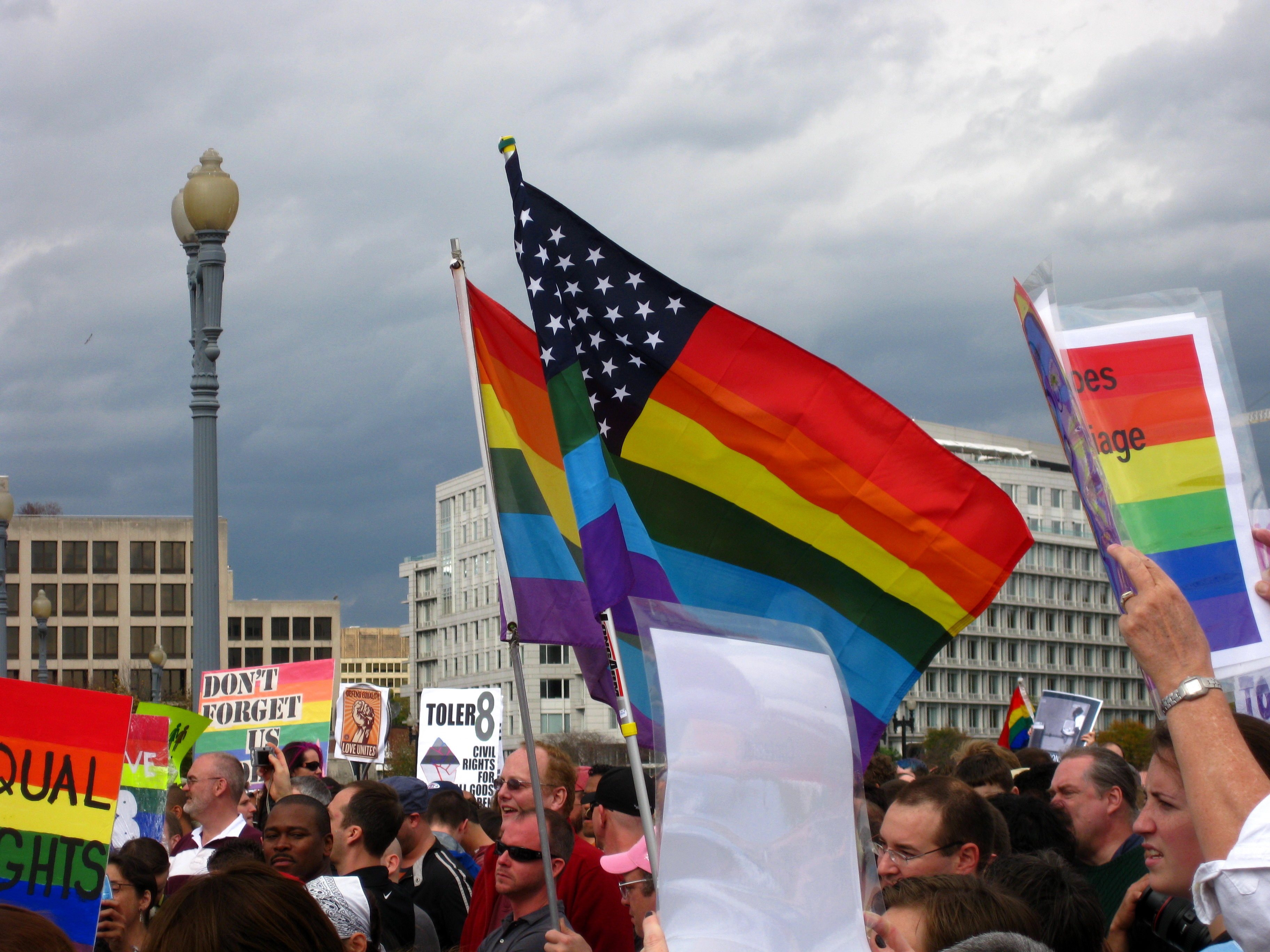 A protest in Washington, D.C. against the passage of Proposition 8.